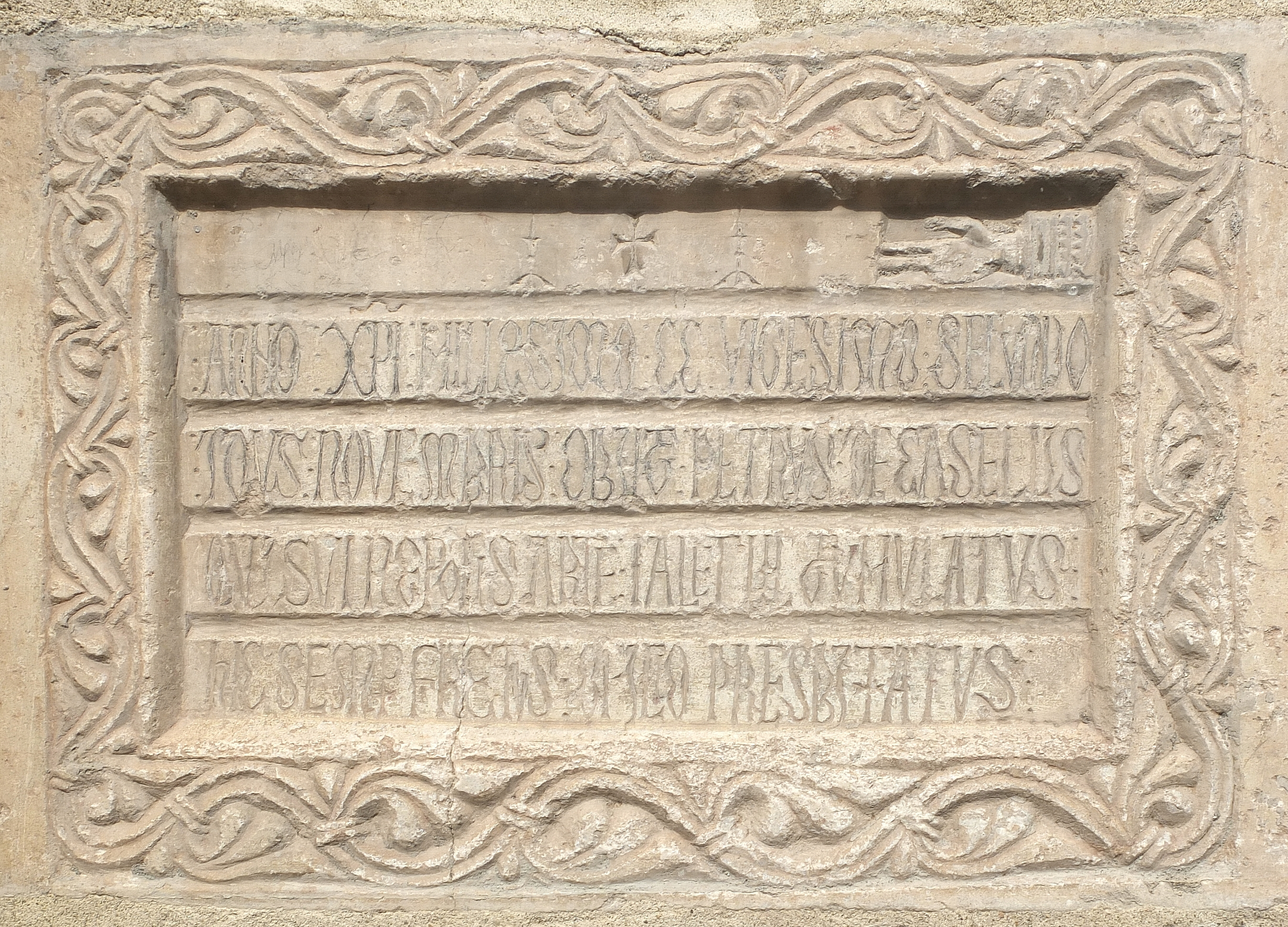 Funerary inscription for Pierre de Casellès (+ 1220) at the portal of parish Church Sainte-Marie, Le Boulou, France.